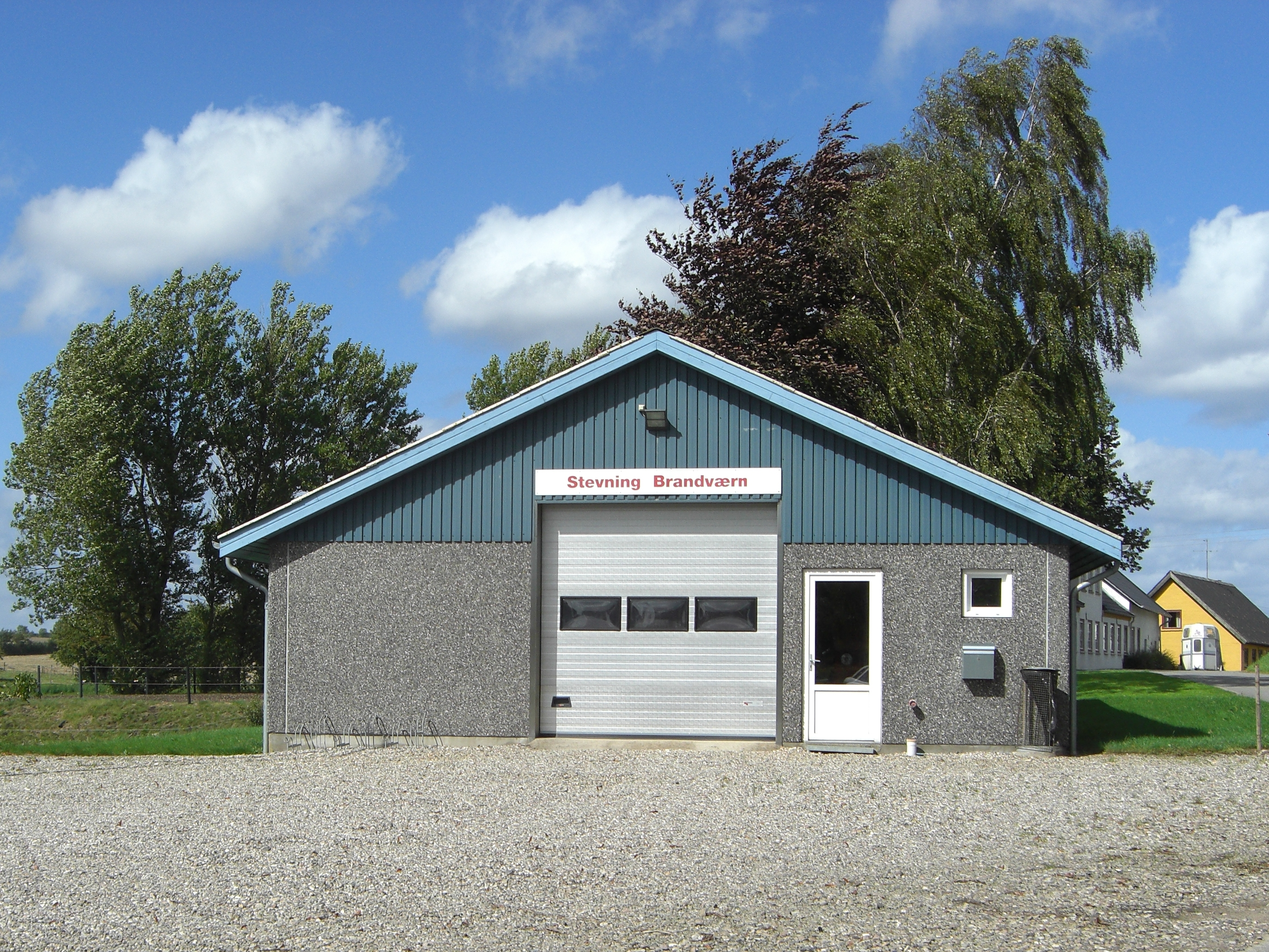 Fire department in Stevning